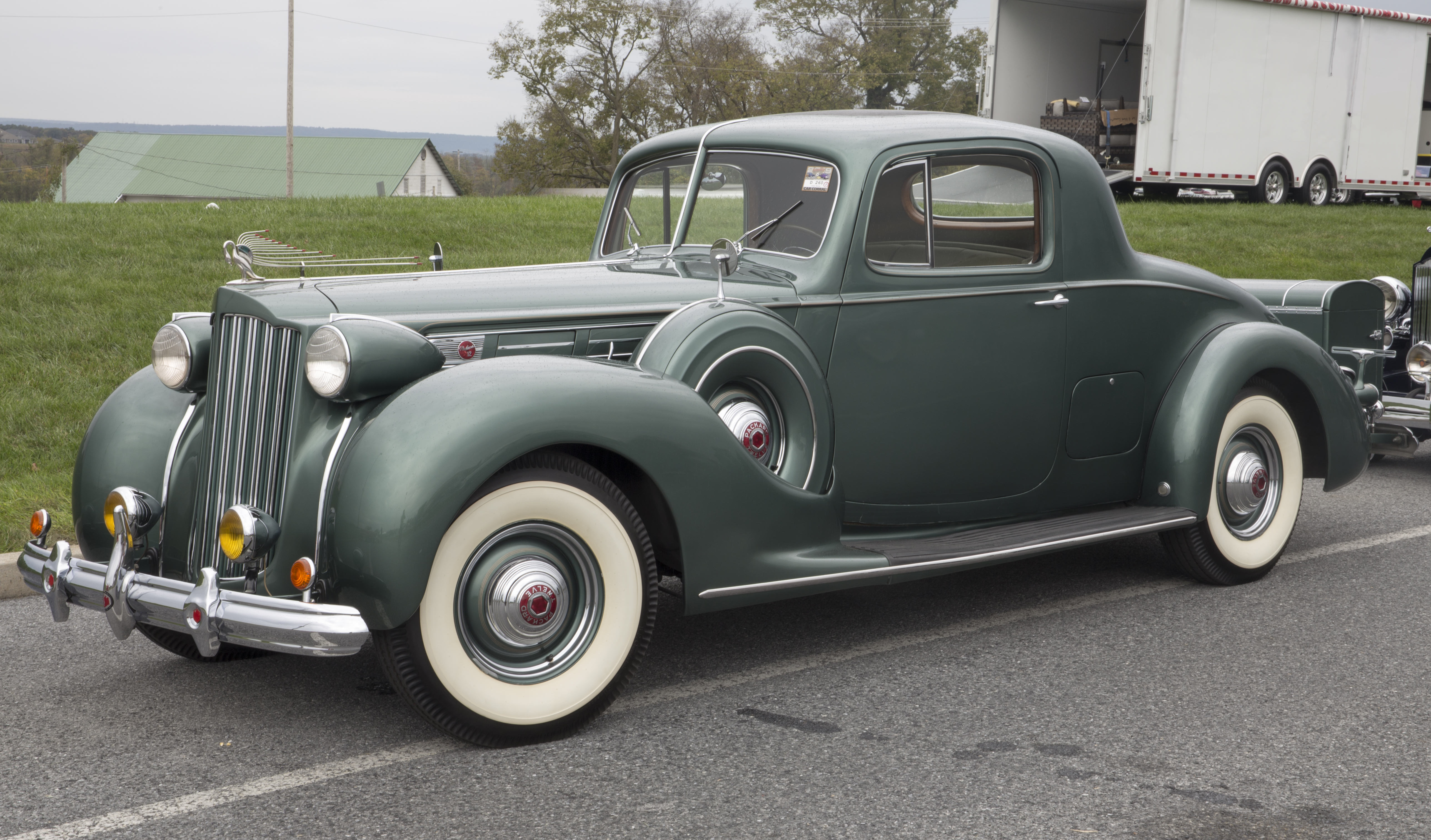 A 1939 Packard Twelve Coupé with a rumble seat in Belfair Green with green cloth interior (17th series, body style 1238) offered for sale at Hershey 2019. Nine of these were built and two remain; this one belonged to actor Ken Kercheval (Dallas). The stunning Peacock hood ornament doubles as the antenna for the factory Packard radio!